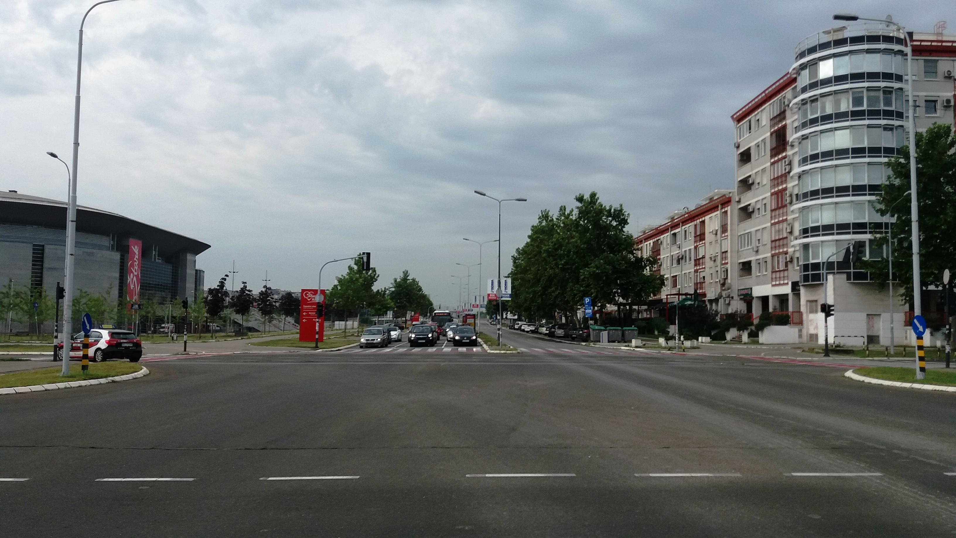 Španskih boraca Street, New Belgrade